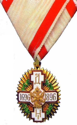 Order of Petrović-Njegoš (temporary gift to the National Museum of Montenegro from the Crown Prince of Montenegro - 100 years of proclamation of the Kingdom of Montenegro)